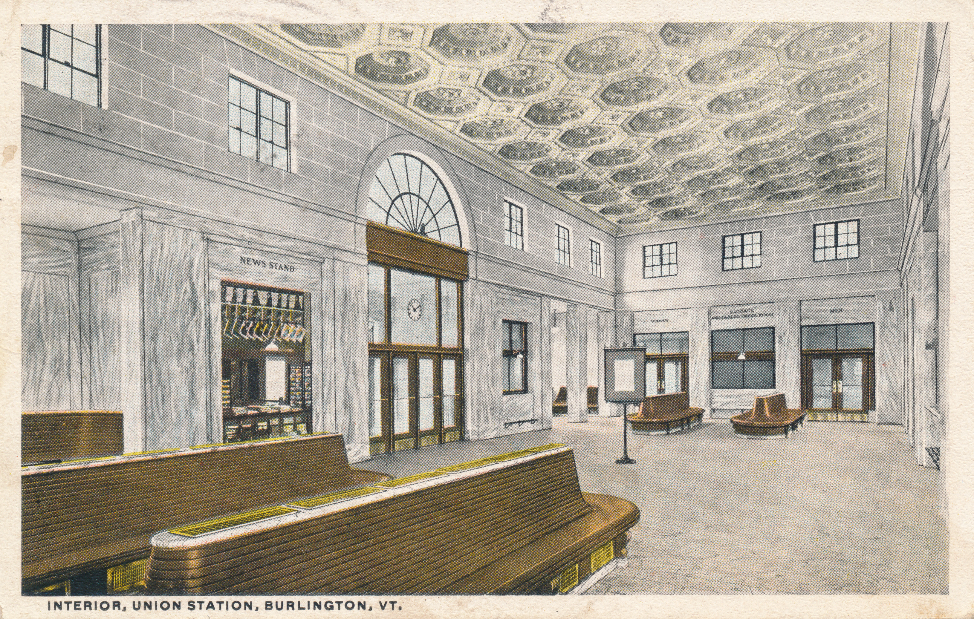 An early postcard of the Union Station building in Burlington, Vermont.